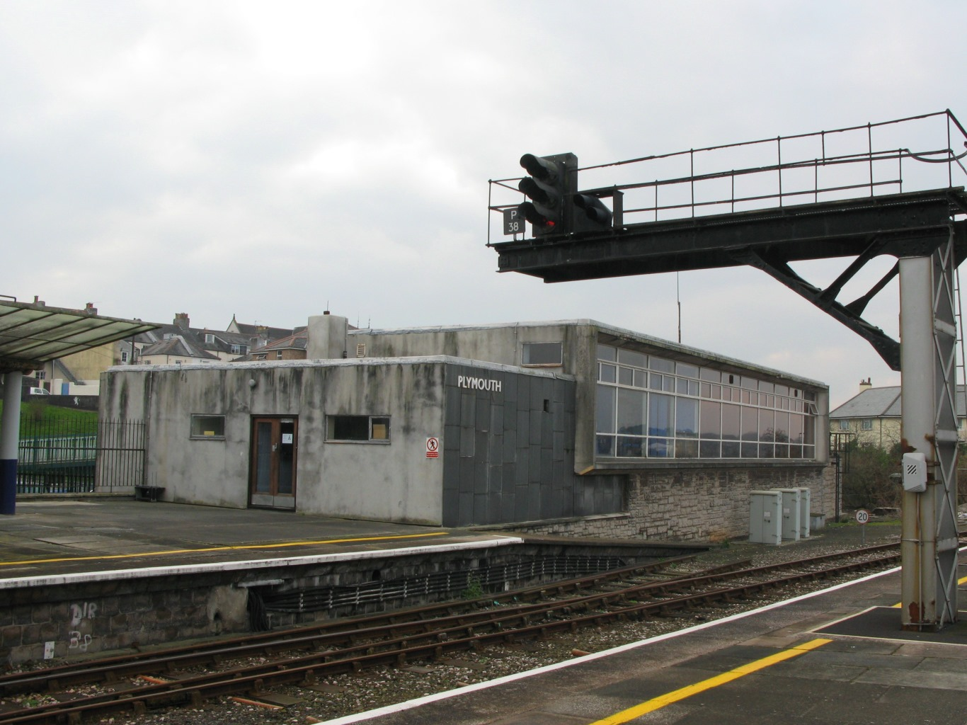 The panel signal box at Plymouth railway station, Devon, England. View taken looking westwards from Platform 3.